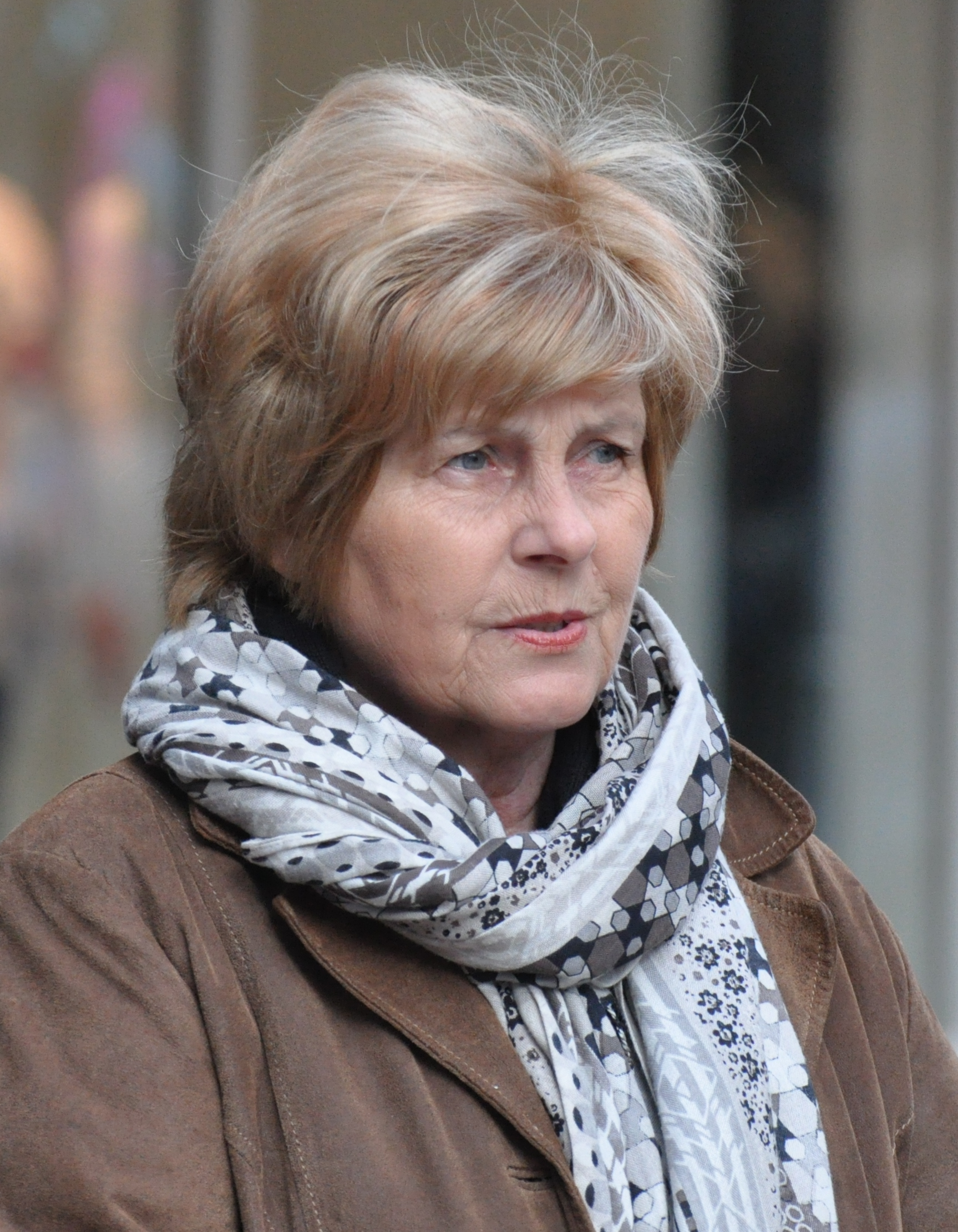 Finnish MP Lea Mäkipää in Tampere on May Day 2011.